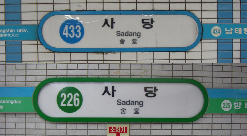 Sadang Station